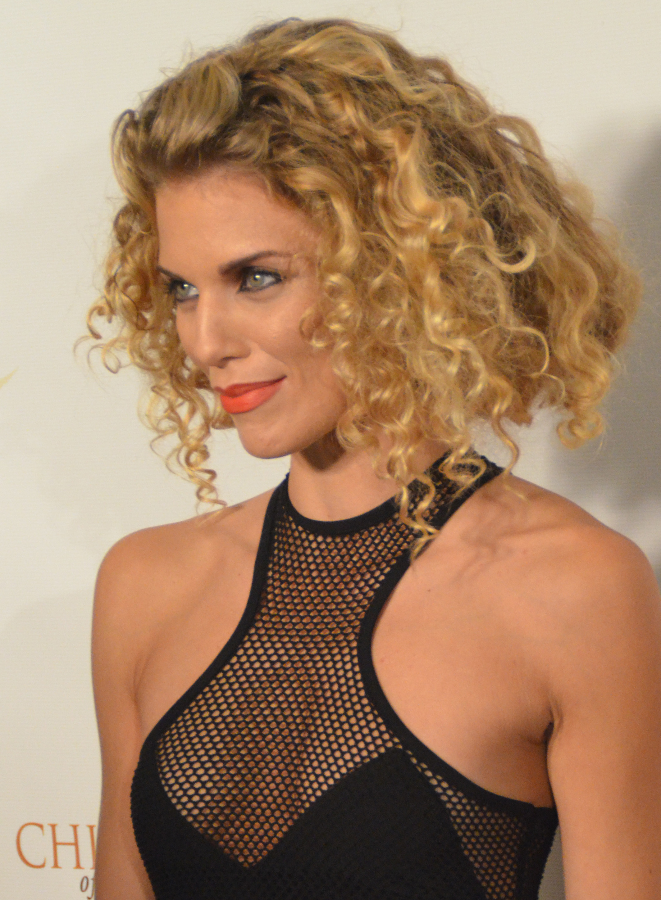 Actress AnnaLynne McCord at the BenchWarmer Presents “Stars & Stripes Celebration” benefitting “Children Of The Night” at Riviera 31 at The Sofitel Hotel on July 1, 2014